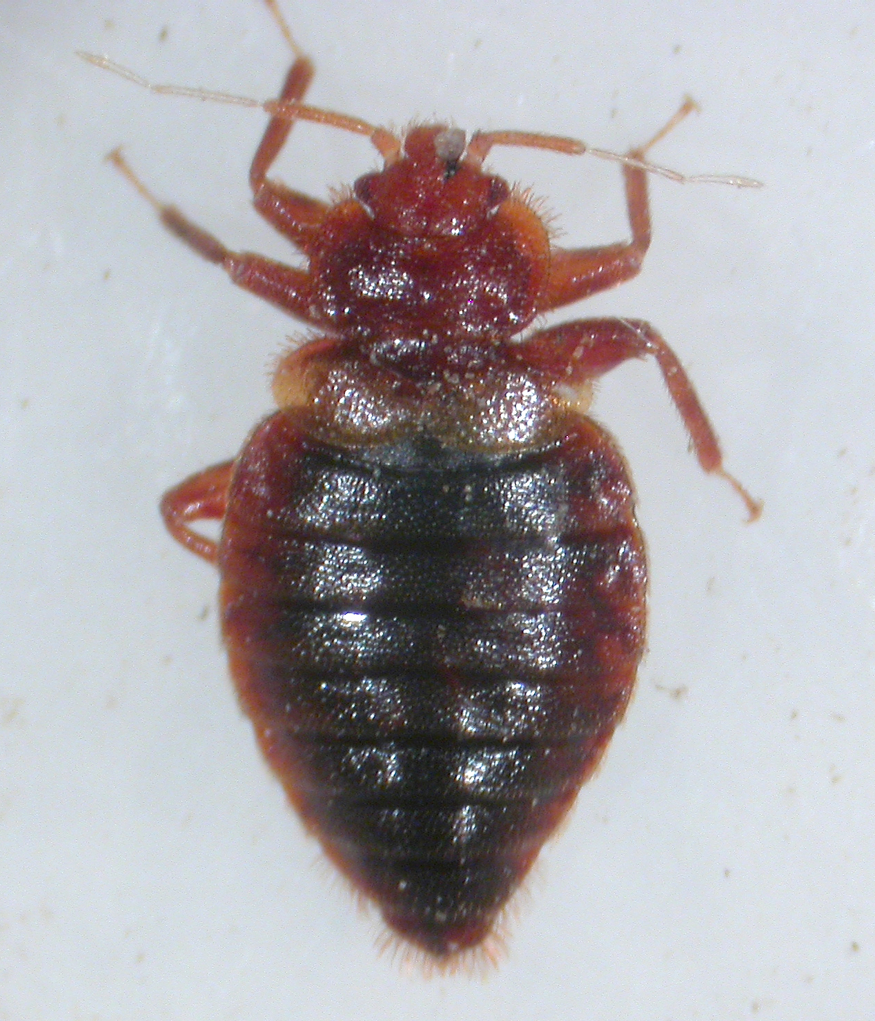 A parasite bug (heteroptera) that is specialized on bats (they are sucking their blood)